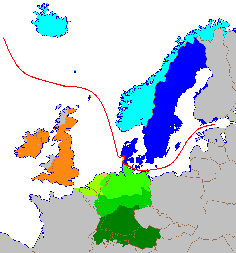 Map of Germanic languages Low Franconian (West Germanic) Low German (West Germanic) Central German (High German, West Germanic) Upper German (High German, West Germanic) Anglic (Anglo-Frisian, West Germanic) Frisian (Anglo-Frisian, West Germanic) East North Germanic West North Germanic Line dividing the North and West Germanic languages.